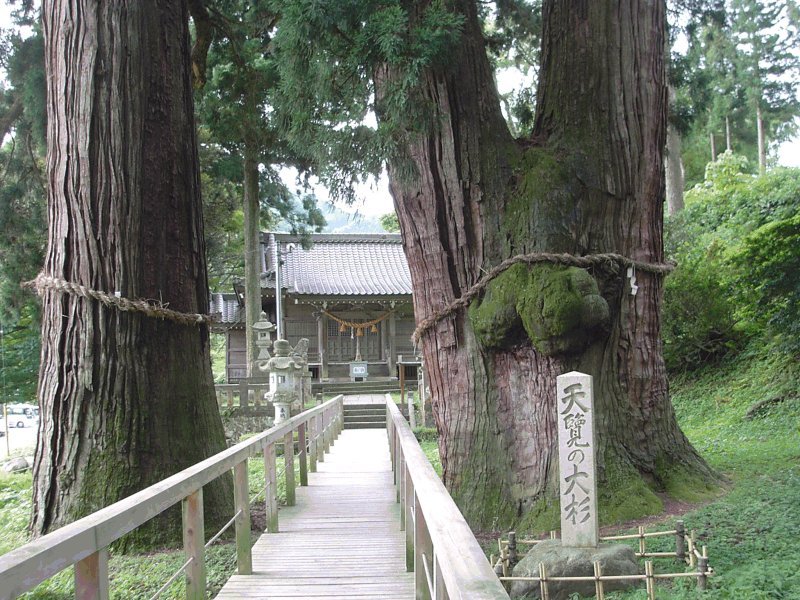 Kayano Ōsugi (Great sugi of Kayano), Cryptomeria japonica, on the right side, the height is 60 meters approx. and perimeter is 9.6 meters at height of human chest, judged age 2,300 years in 1928. one of three on the left, total four in the shrine. Other three's perimeter are 8.8m,6.65m and 7.8m respectively.